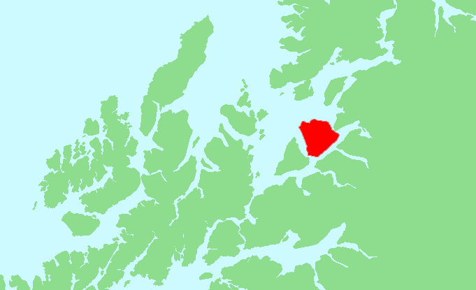 Locator map of Andørja, Troms, Norway